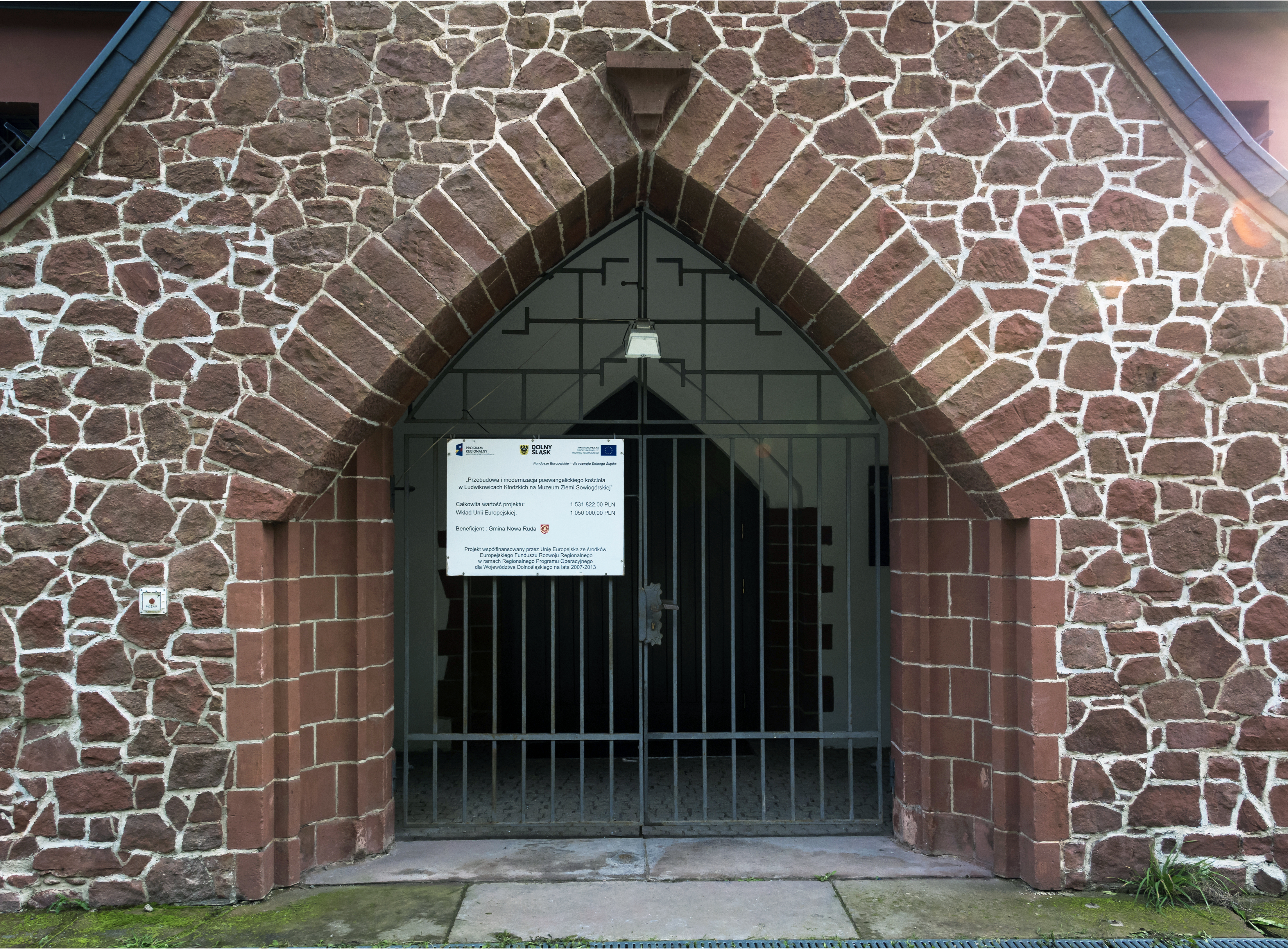 Former evangelical church, now Museum of the Sowiogórska Land in Ludwikowice Kłodzkie